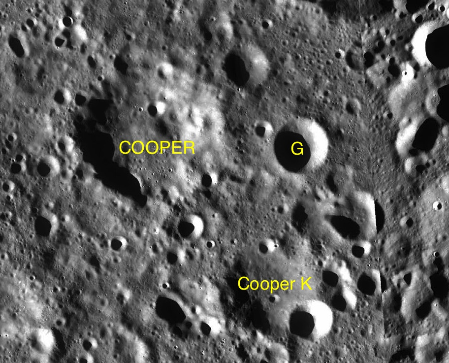 Part of the chart LAC-18 used for the presentation